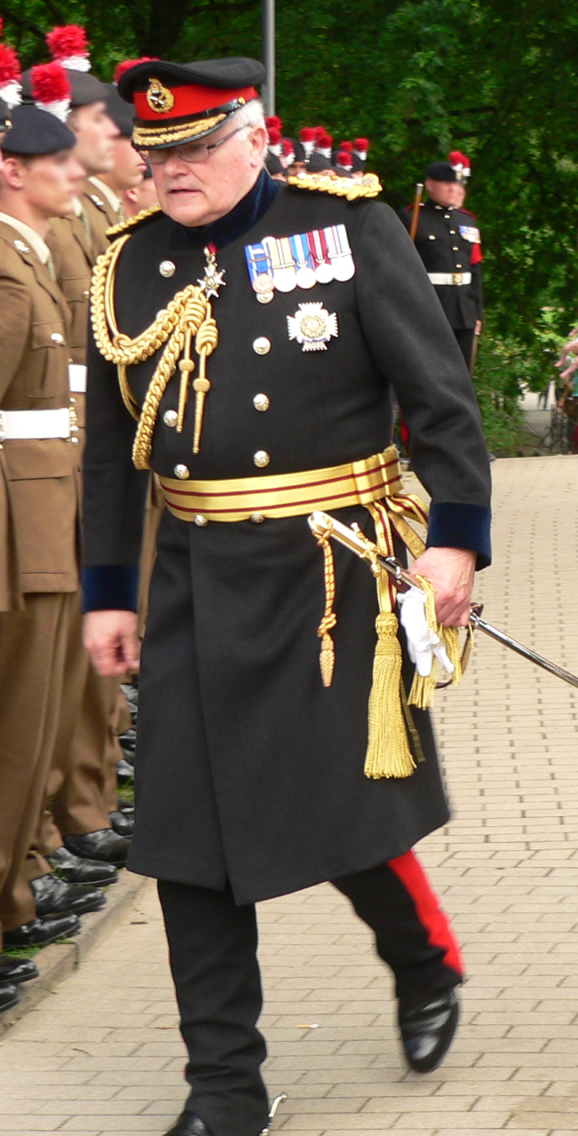 British Army General Sir Peter Wall in Germany